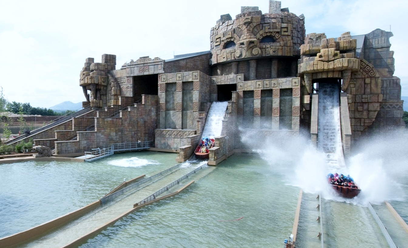 Splah